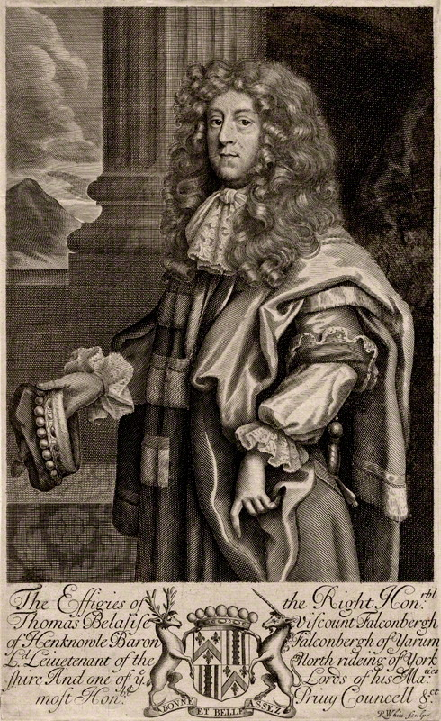 Thomas Belasyse, the 1st Earl of Fauconberg (circa 1627 – 31 December 1700).